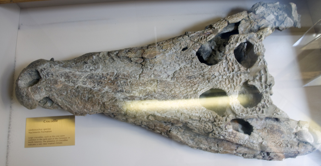 Fossil skull of a Borealosuchus species crocodylomorph in the Museum of Northern Arizona, Flagstaff, AZ